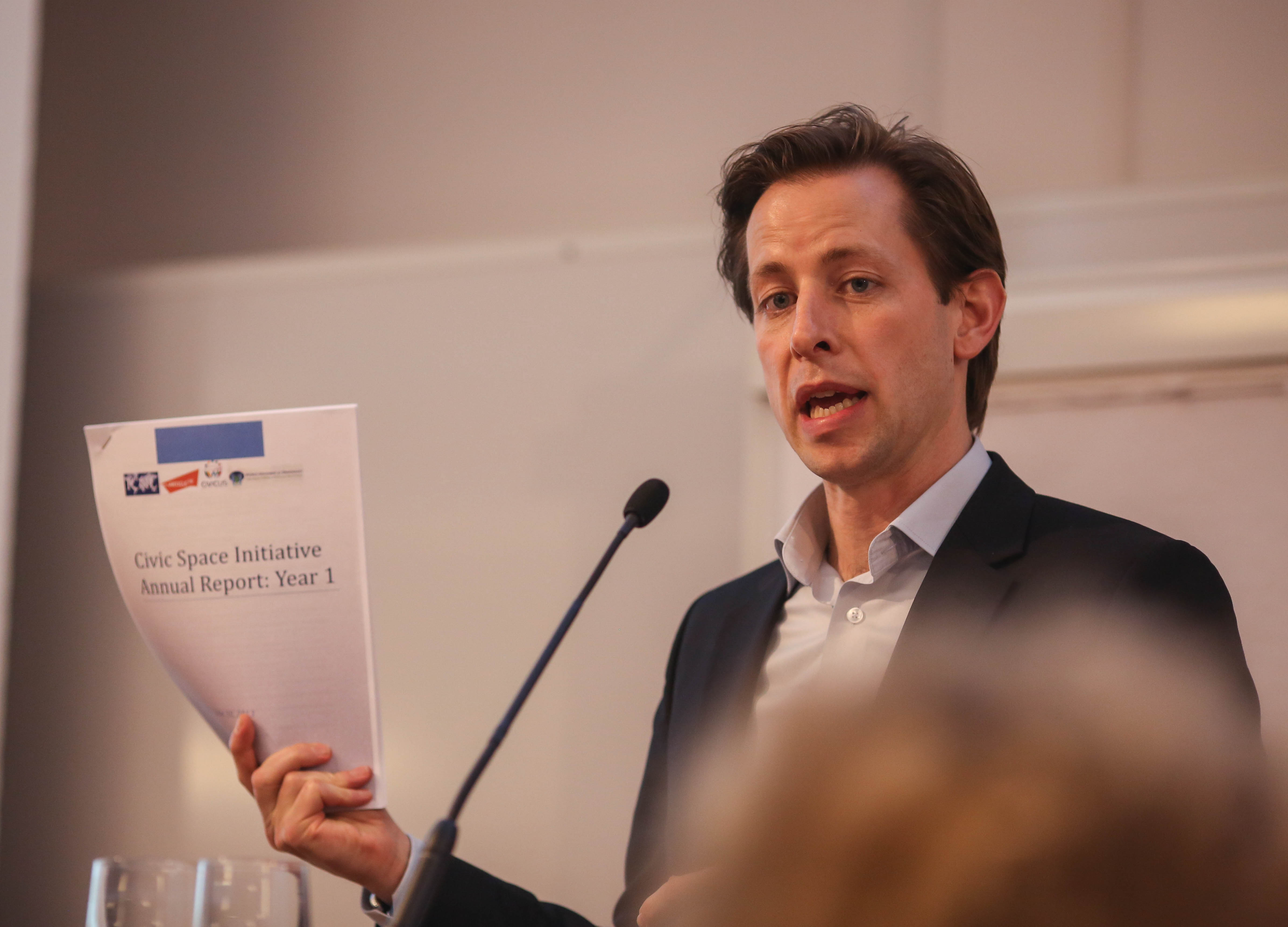 Thomas Hughes, Executive Director of Article 19, speaks at the SIDA-sponsored seminar